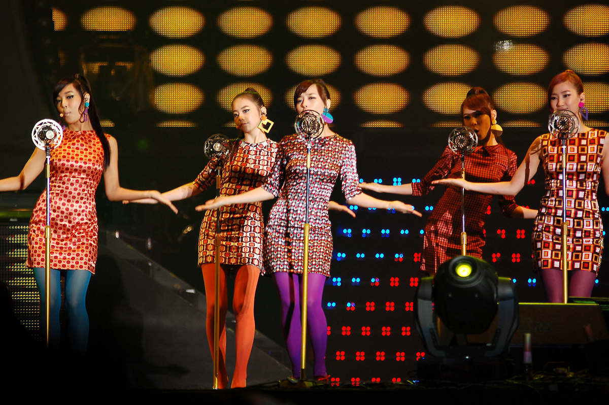 The Wonder Girls at the 2008 Korea Food Expo opening ceremony